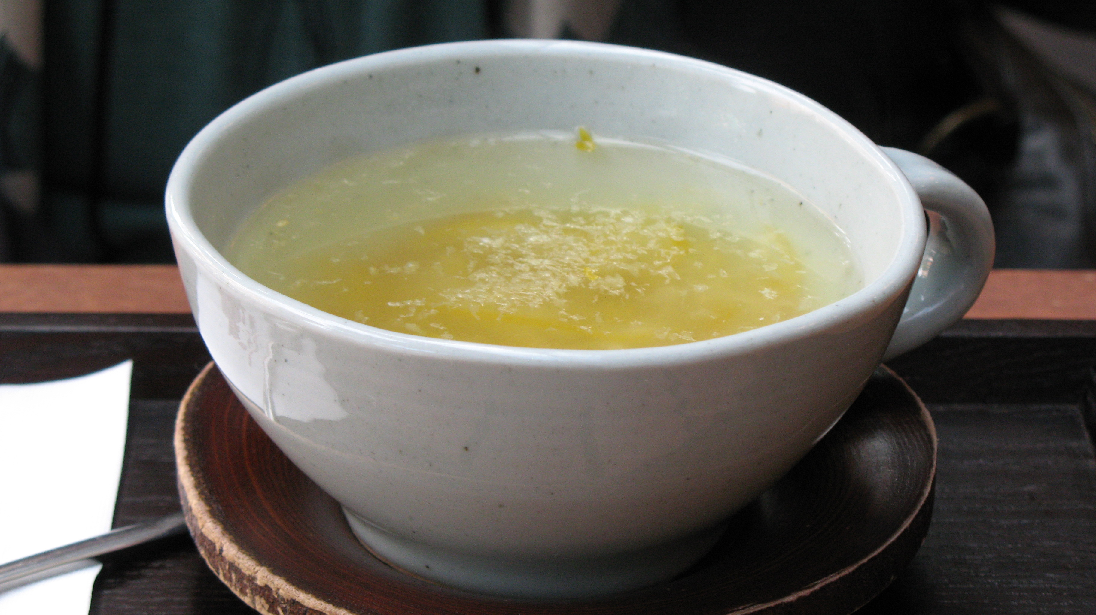 Citron tea in Seoul cafe, Seoul.